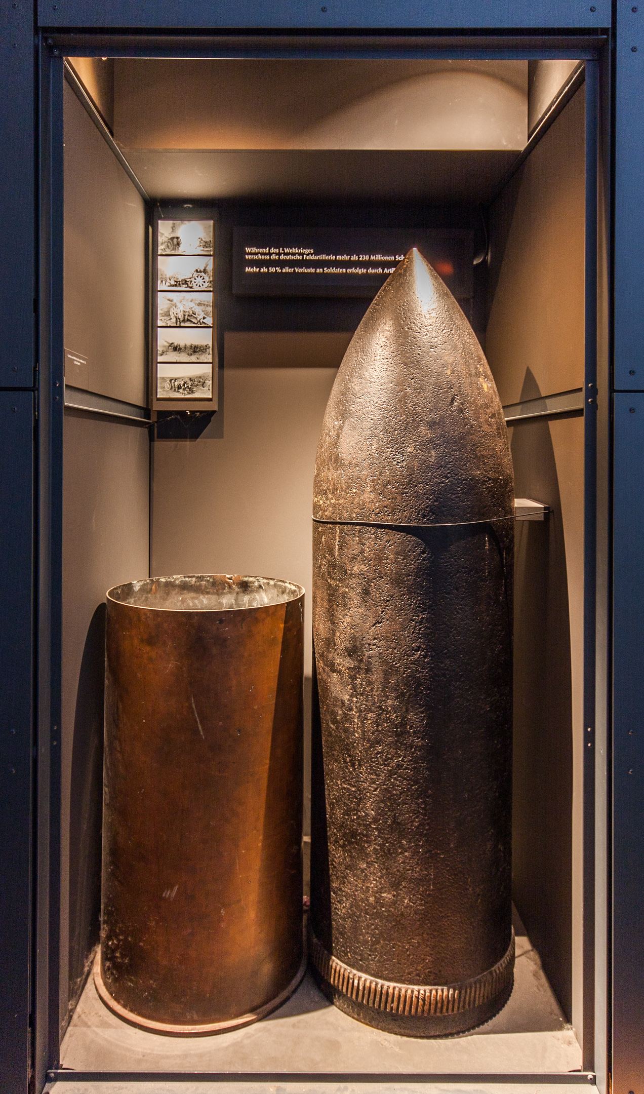 Projectile and shell of the WW I. Howitzer Big Bertha on display in the Wehrgeschichtliches Museum Rastatt.